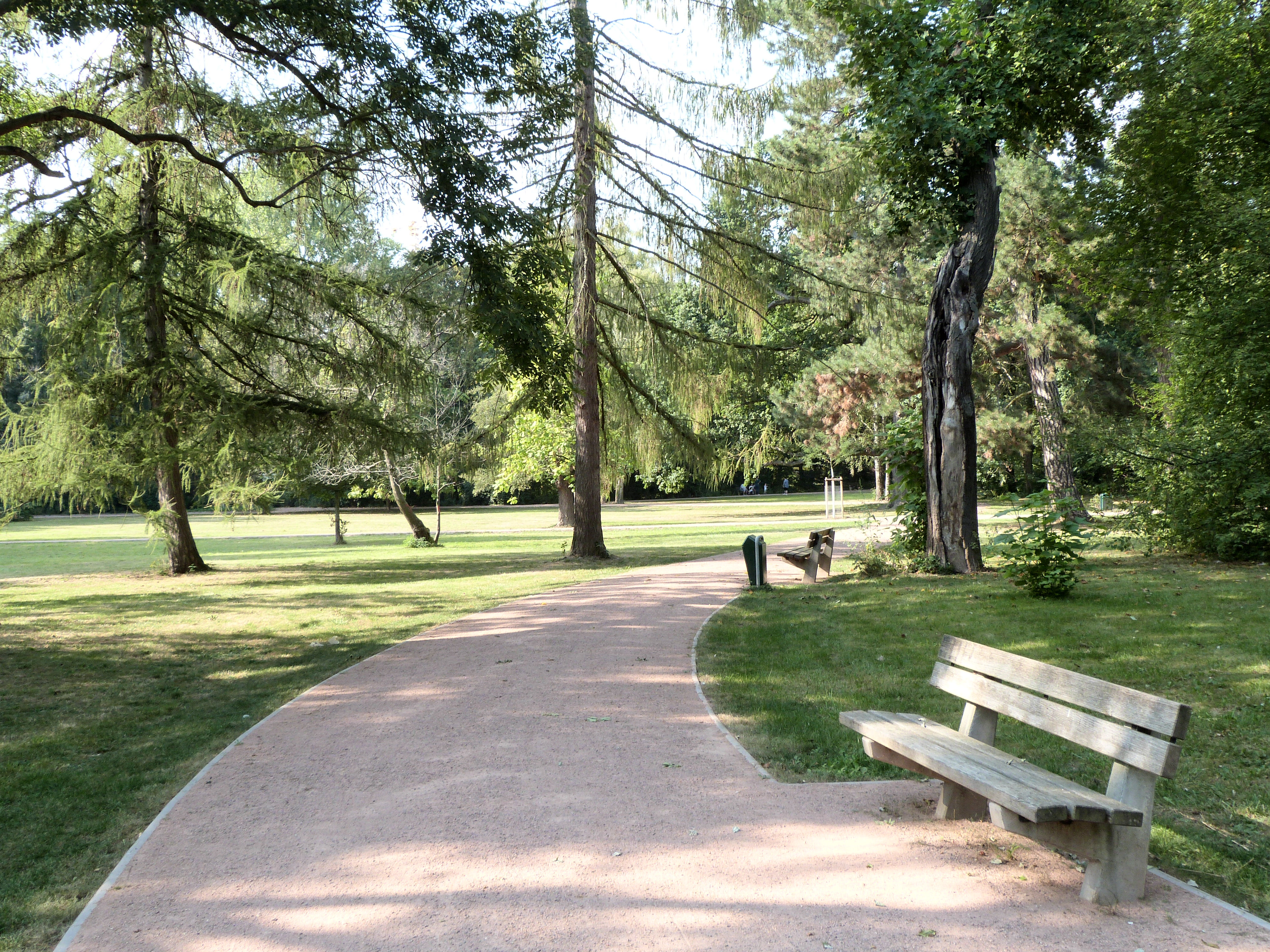 Gimritz park, Halle (Saale), Peißnitzinsel (Peißnitz island)